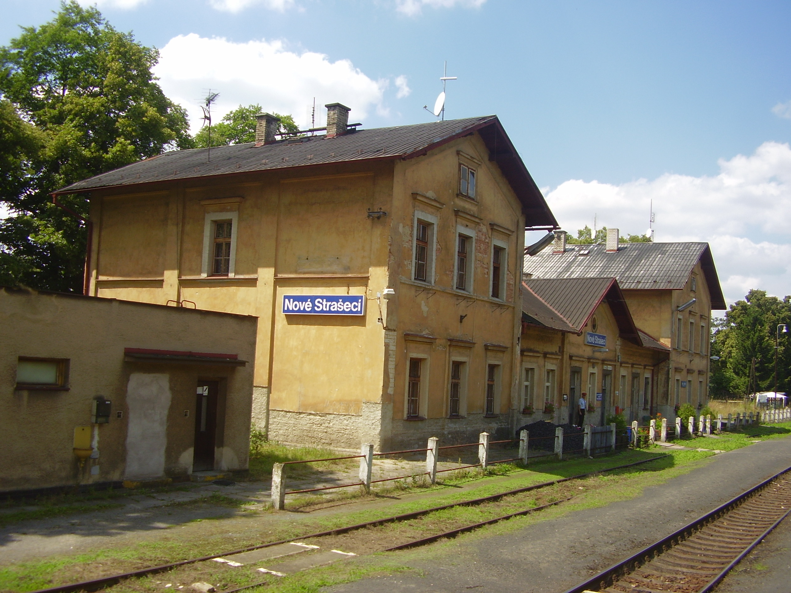 Train station in Nové Strašecí, Central Bohemian Region